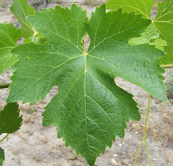 Syrah leaf from Hedges vineyard in Red Mountain AVA. Image taken Sun June 10th, 2007 with a kodak z650